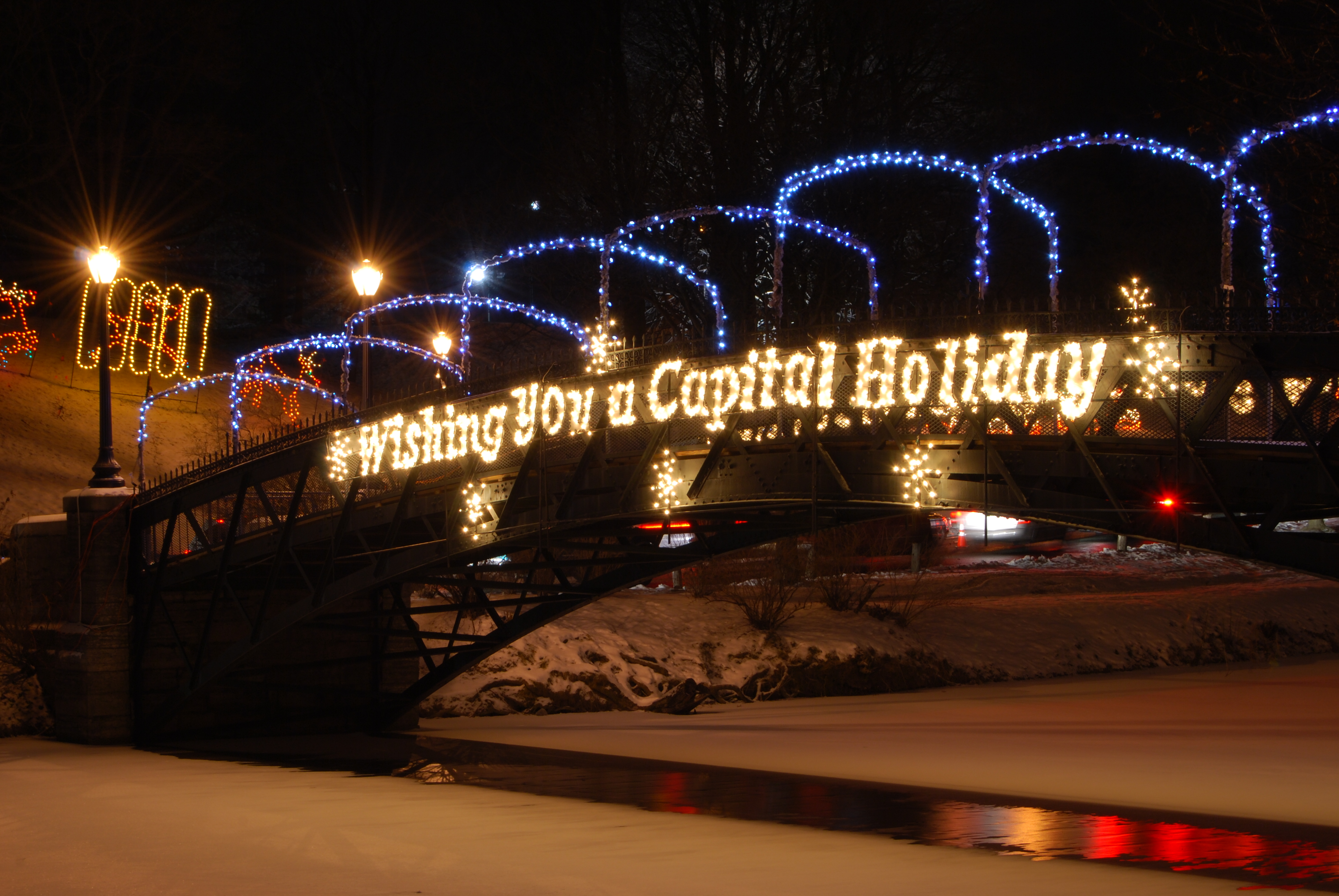 The footbridge over Washington Park Lake at Washington Park in Albany, New York, United States is decorated for the annual Capital Holiday Lights display